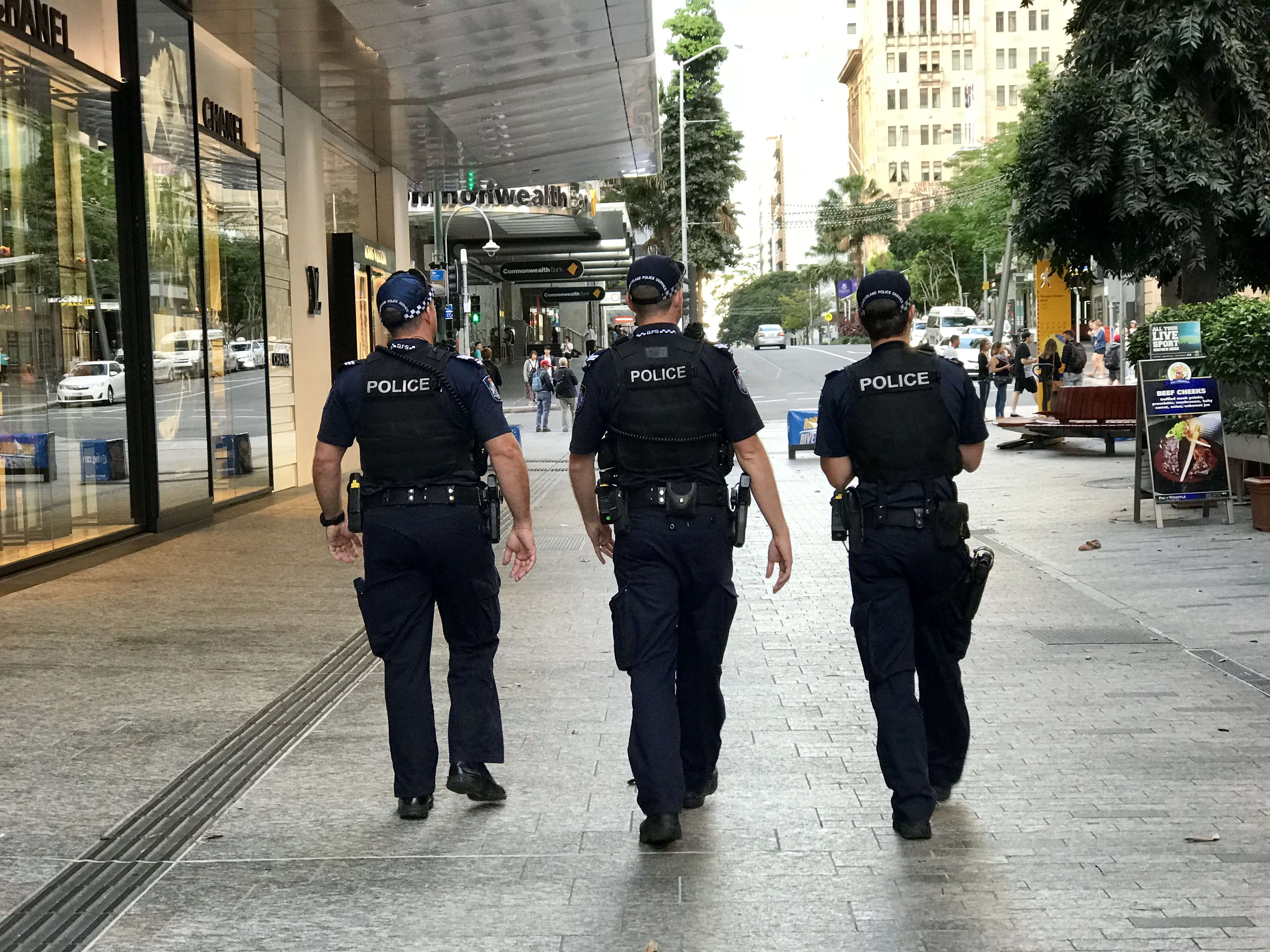 Police officers of Queensland Police Service, on the beat, in Brisbane Australia